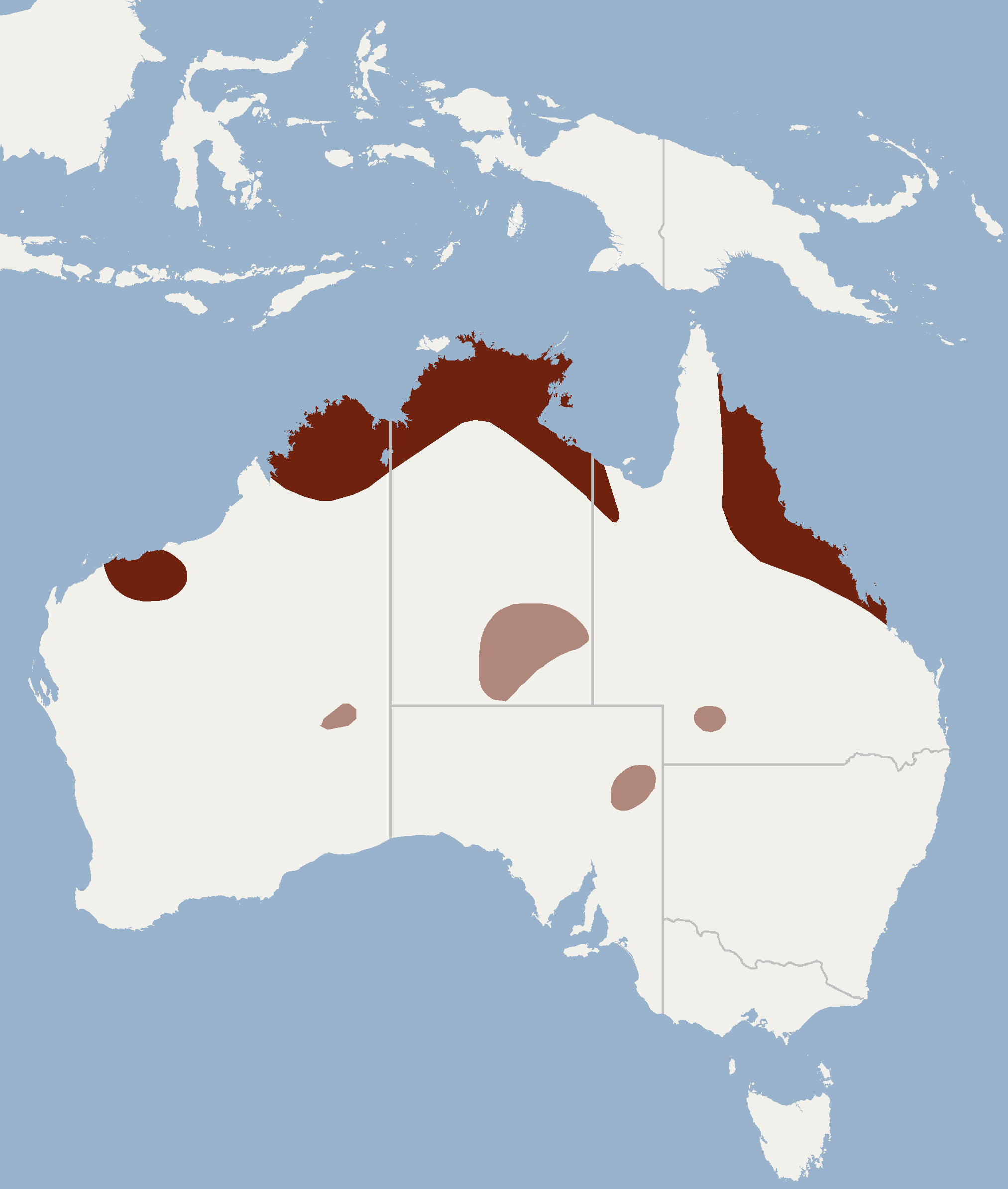 Geographical distribution of Macroderma gigas according to Menkhorst & Knight, 2001. Shaded colours represent former distribution.